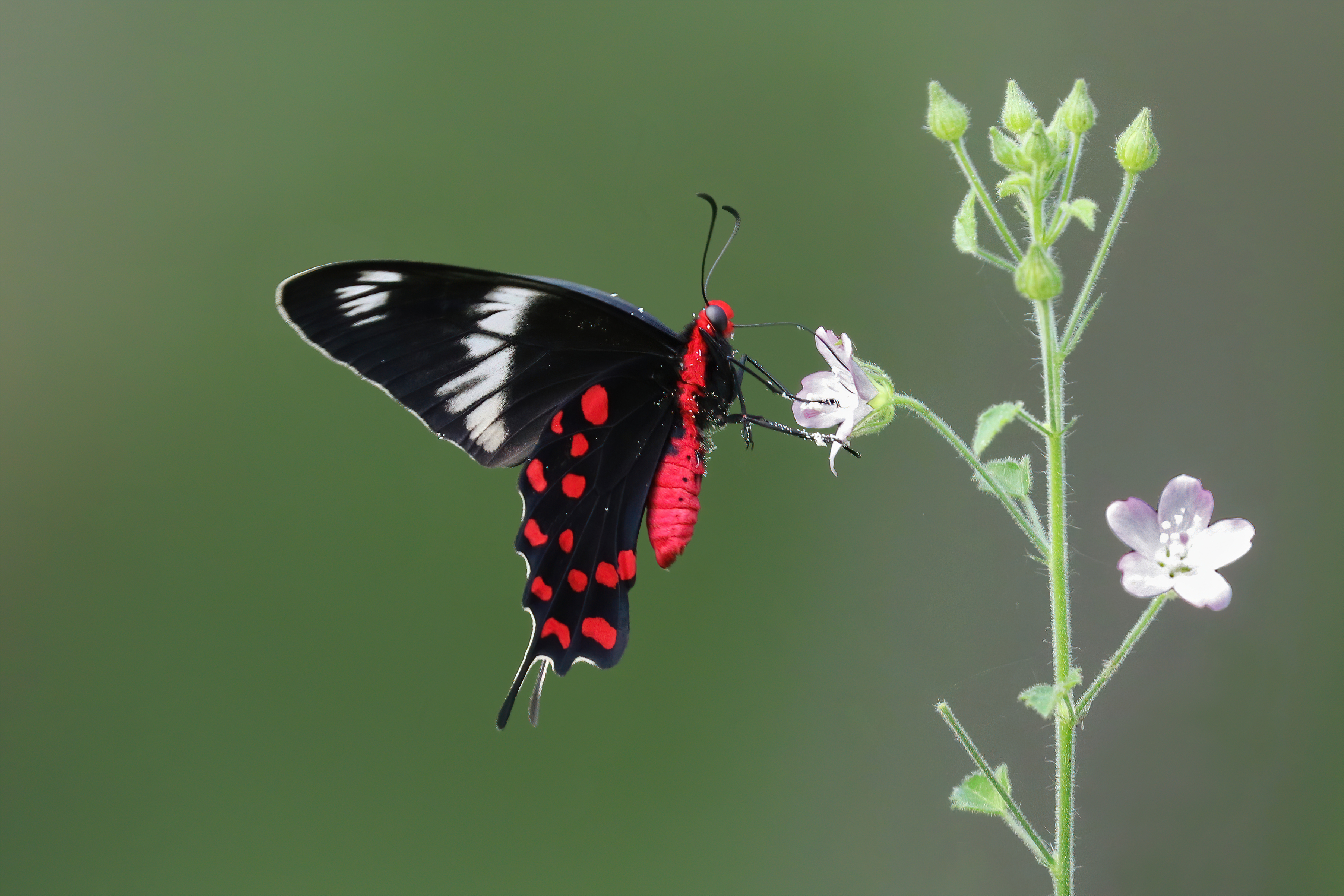 Crimson Rose (Pachliopta hector), Kumarakom, Kerala, India